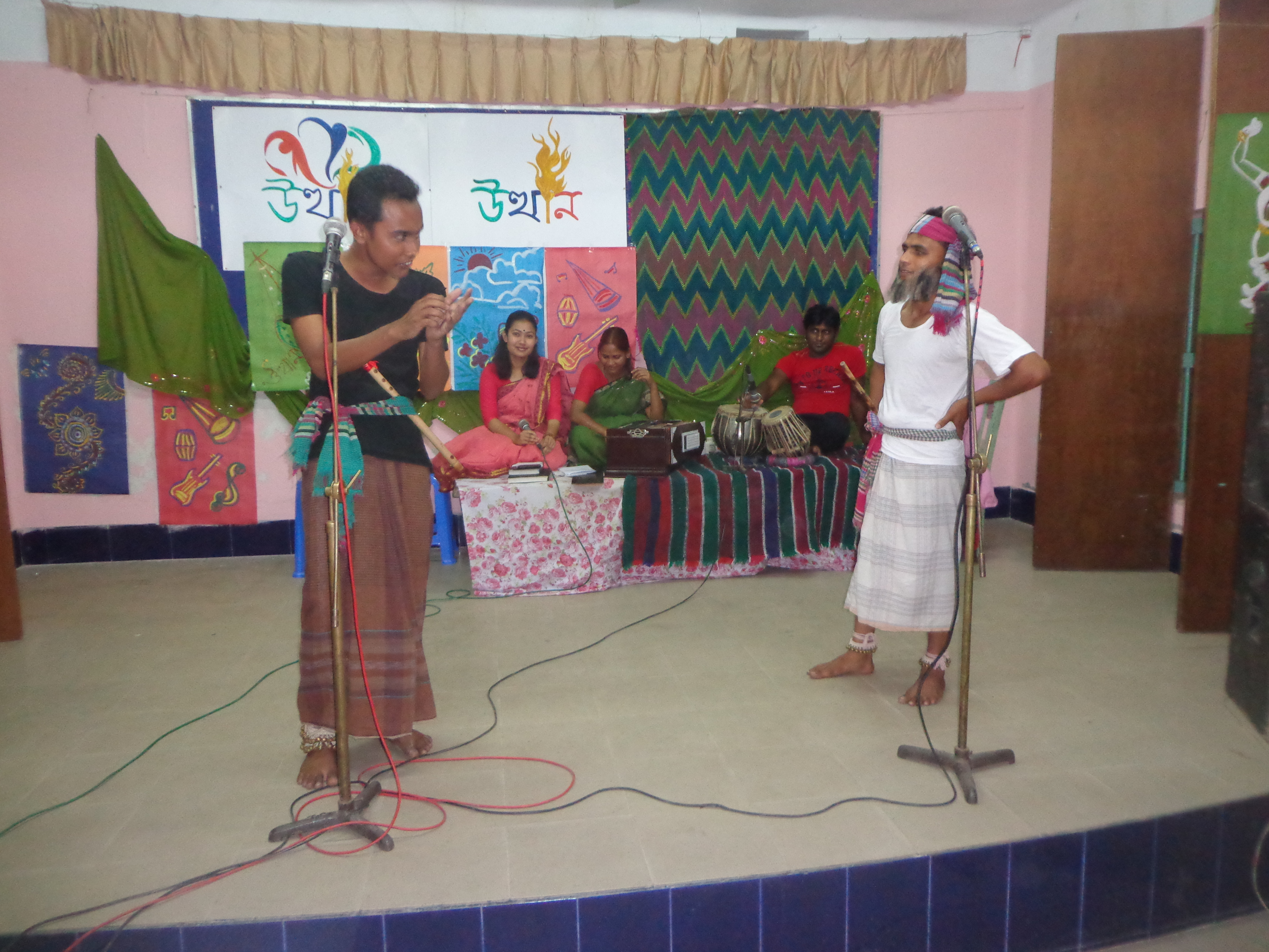 Bengali folk song Gombhira performance.